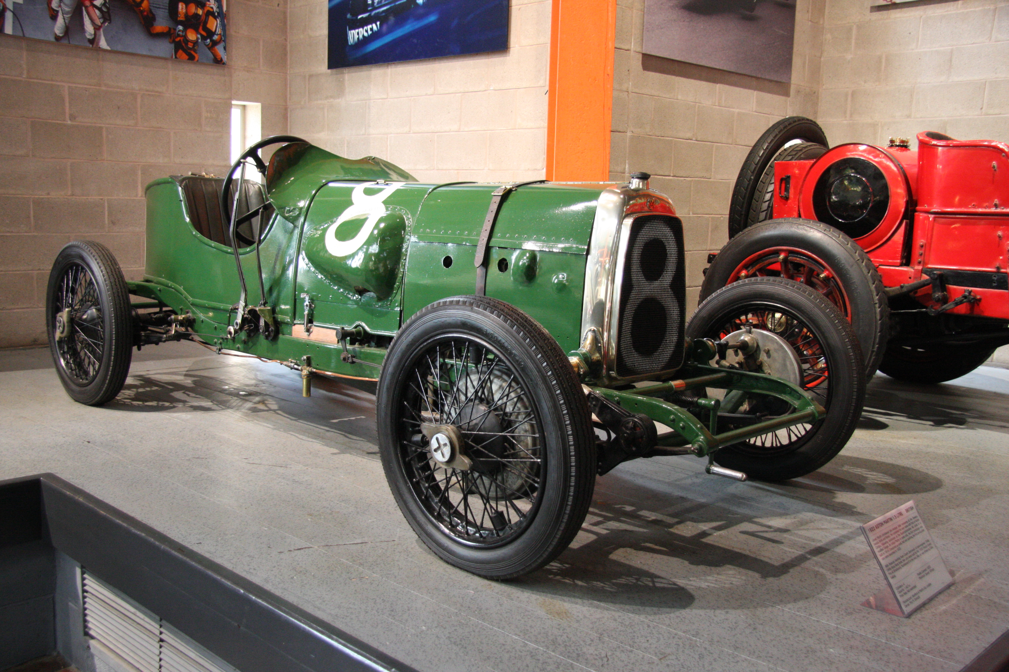 Lionel Martin christened the marque. He combined his own name with that of Aston Clinton, following successes at the Buckinghamshire hill climb in a modified Singer. An Aston Martin in name only, the first prototype was built in 1914. The first production cars were launched in 1922. With backing from Count Zborowski of aero-engined Chitty-Chitty-Bang-Bang fame, two cars were built for the 1922 French Grand Prix at Starsbourg. This car was driven by Clive Gallop.